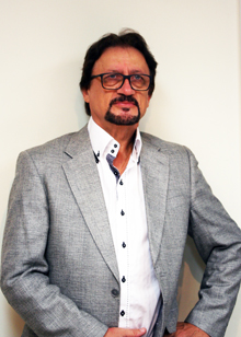 A portrait of the internationally renowned Ballet Master Vladimir Djouloukhadze, Washington, DC, 2017